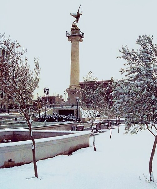 Plaza Mayor in Chihuahua, Mexico after snowfall. The angel sculpture was installed in 2003.[1]